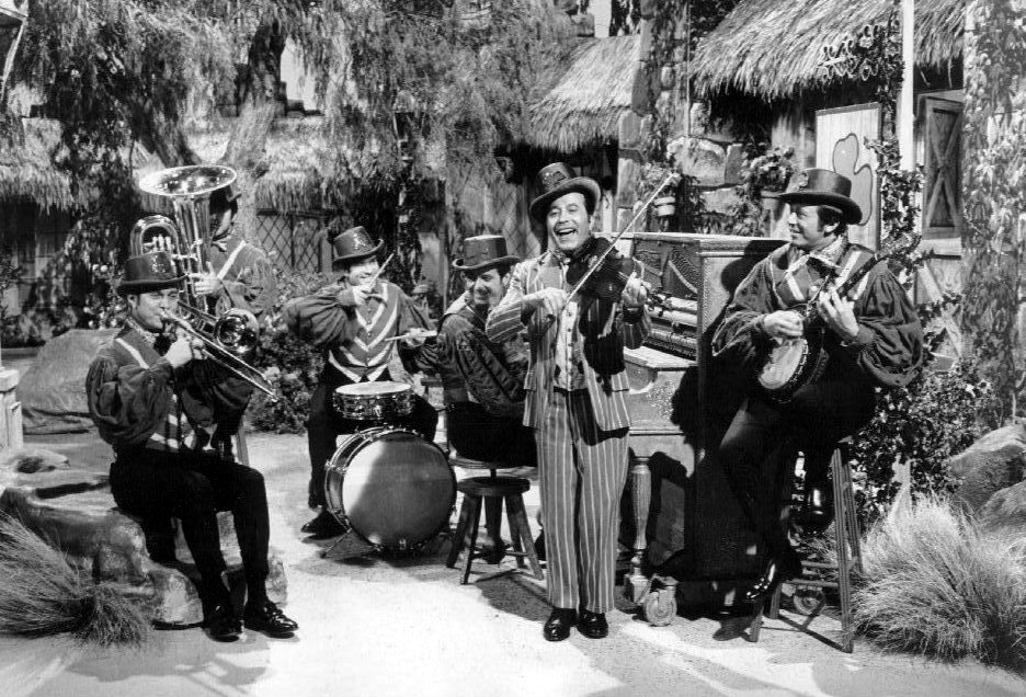 Photo of Bob Lido (playing fiddle) and the rest of the Hotsy Totsy Boys. The original group was formed by Lawrence Welk; Lido led a revival of the group on Welk's program during the early 1970s. They are seen performing for the Welk St. Patrick's program.